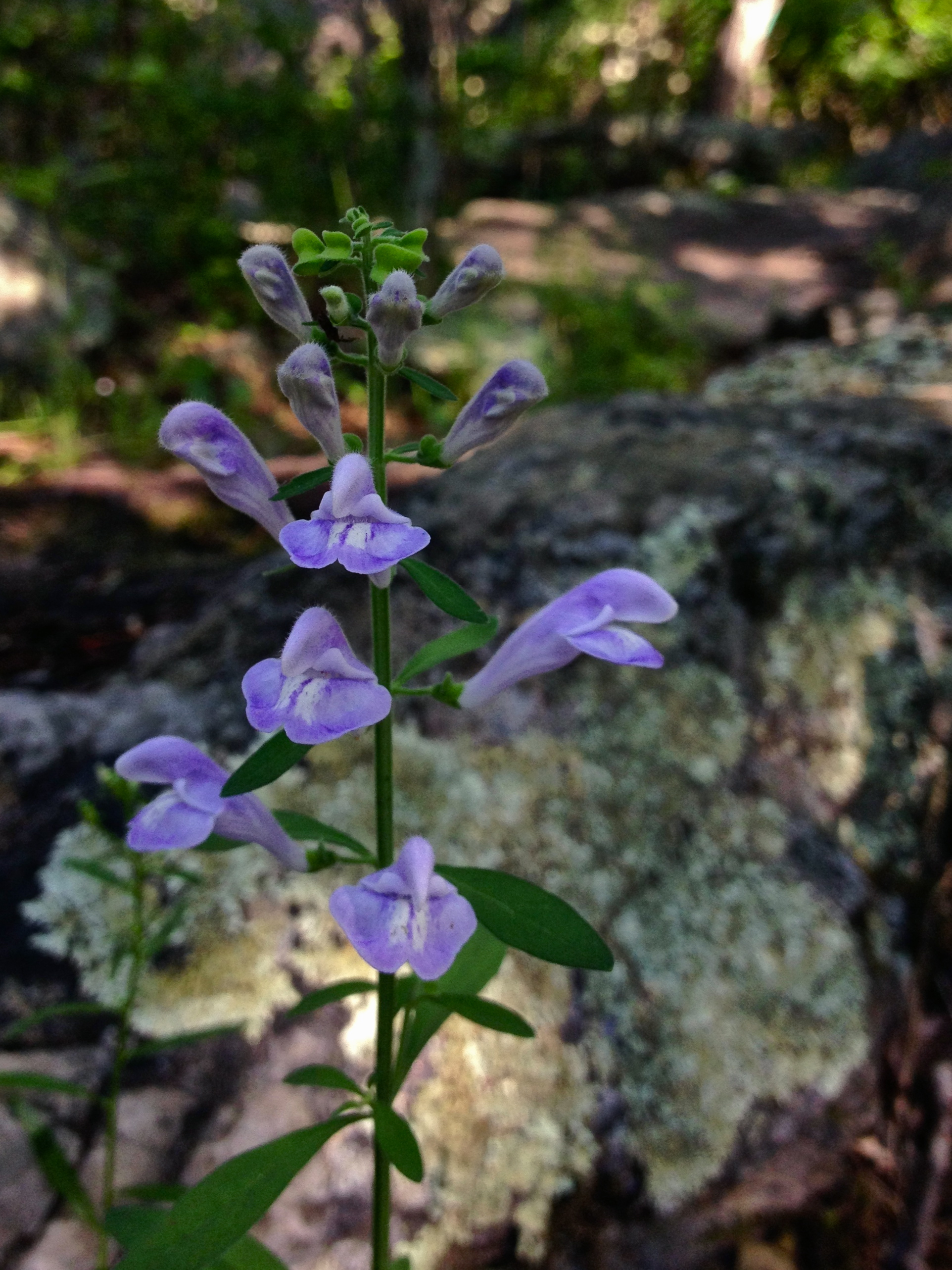 Photo of Scutellaria integrifolia in flower. This is a native plant growing wild in Great Falls Park, Fairfax county Virginia, USA. This species is a member of the Lamiaceae family.